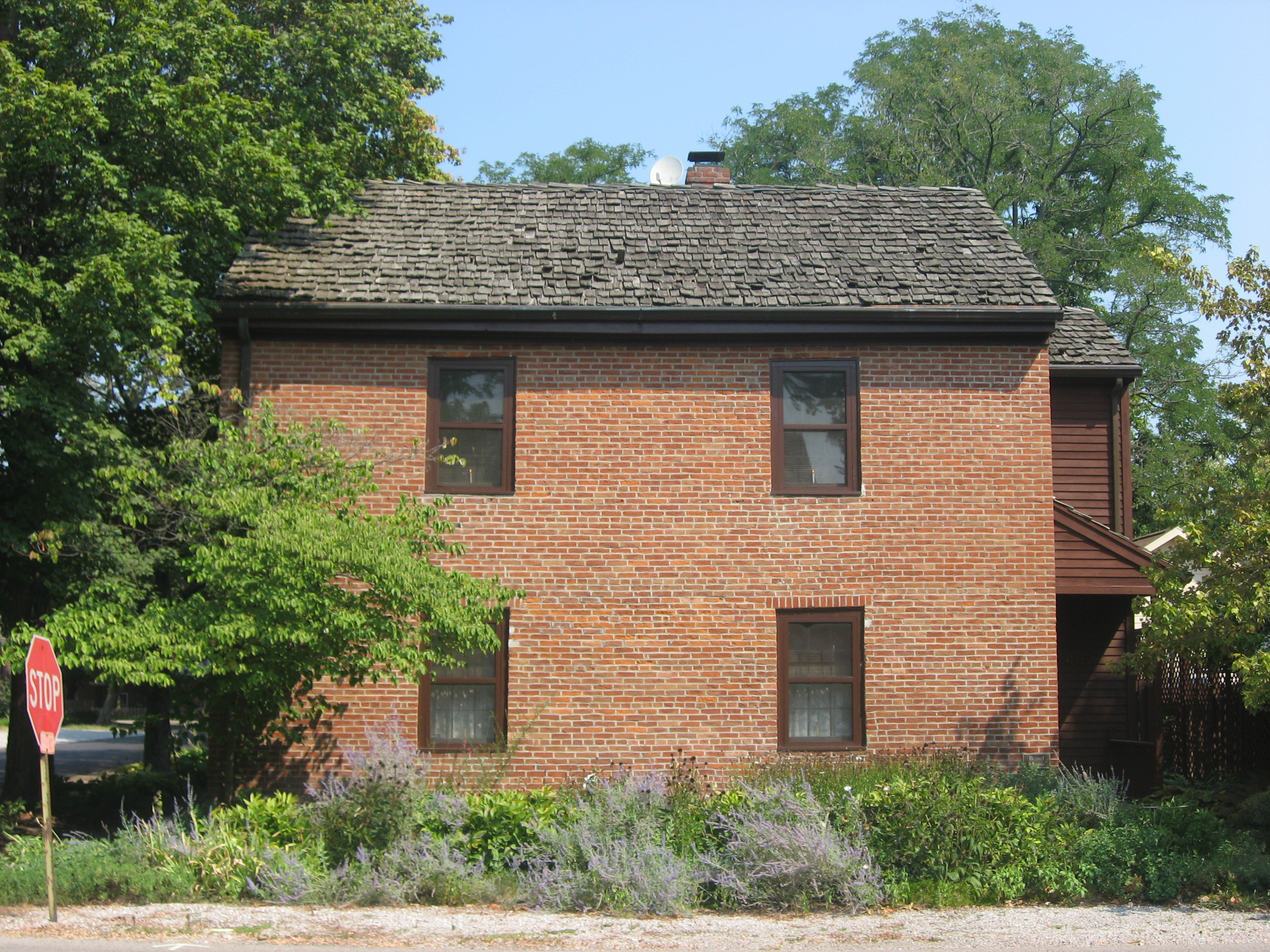 Front of the George Bentel House, located on the northeastern corner of the junction of Granary and Brewery Streets in New Harmony, Indiana, United States. Built in 1823, it is listed on the National Register of Historic Places, and it is part of the New Harmony Historic District, a National Historic Landmark District.